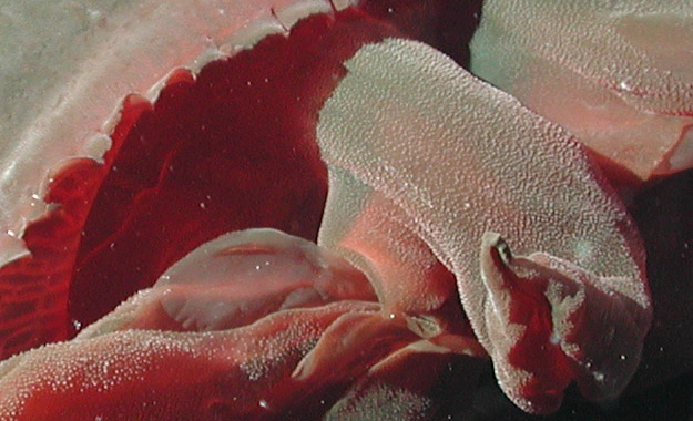 Caption: Jellyfish (Tiburonia granrojo) - a new species described by MBARI and JAMSTEC researchers. This species grows up to 1 meter in diameter. Image ID: expl0827, Voyage To Inner Space - Exploring the Seas With NOAA Collection Location: California, Davidson Seamount